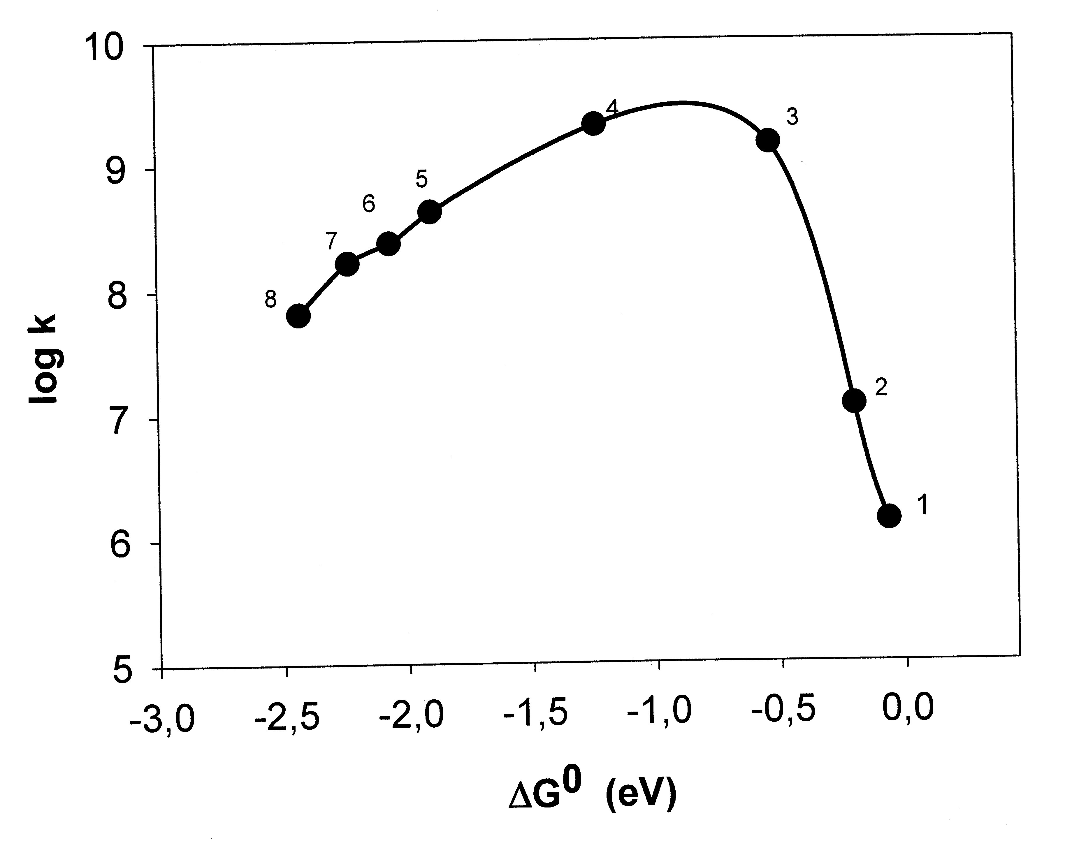 Marcus behaviour of a molecule consisting of a biphenyl moiety whose anion (produced by pulse radiolysis) is the donor, a steroid moiety which is the spacer and several chinones and hydrocarbons which are the acceptors. (Data from: J.R. Miller, L.T. Calcaterra, G.L. Closs, J.Am. Chem Soc. 1984, 106, 3047)